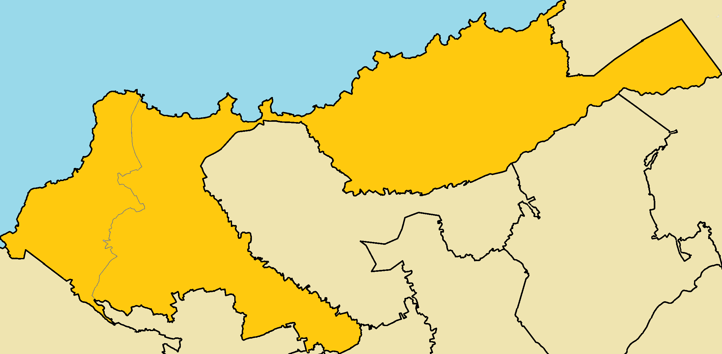 Gialousa with quarters (de jure).